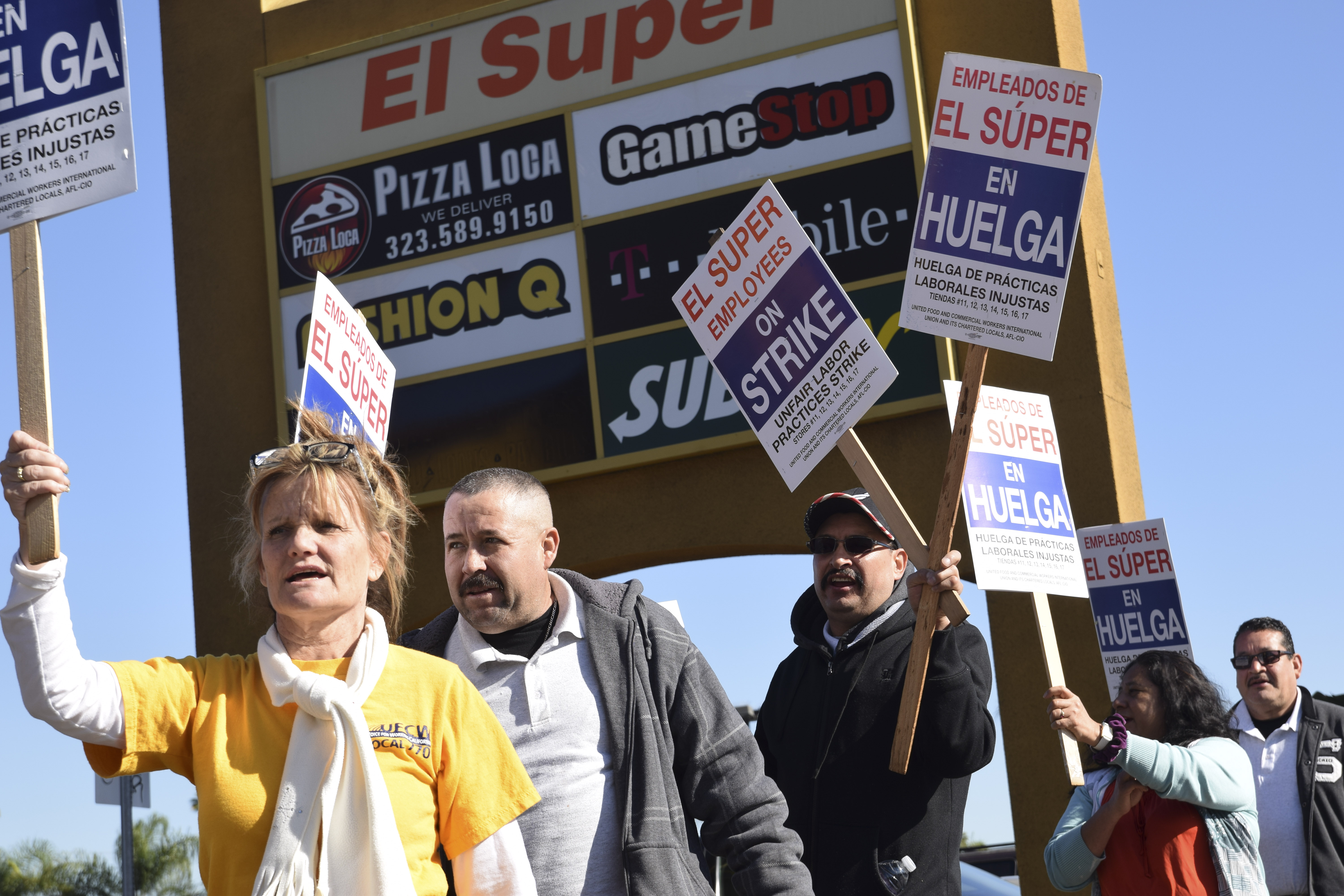 Grocery works from the United Food and Commercial Workers union strike at El Super supermarket in California on December 16, 2015.